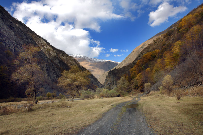 A road in Khevsureti, Georgia in the Fall